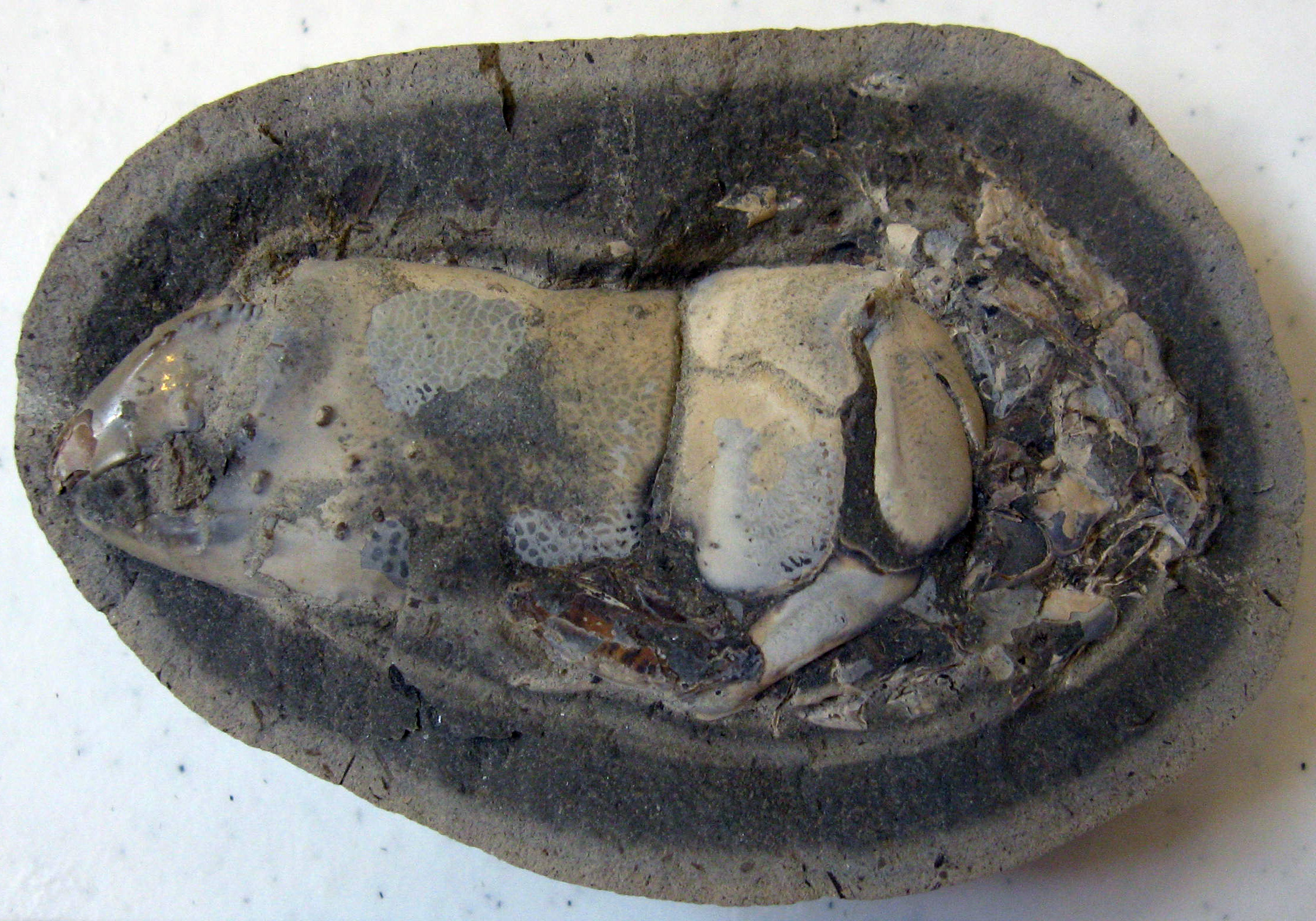 A single chela of a female Callianopsis clallamensis "mud shrimp" from the Oligocene Pysht Formation, Clallam County, Washington, USA. Stonerose Interpretive Center, Gary Eichhorn Crab Collection, SR EC ??-??-??